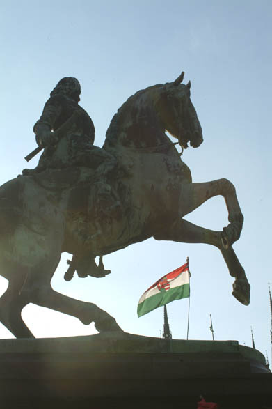 Pásztor János - Györgyi Dénes, 1937. Statue of Ferenc Rákóczi II. in Budapest. Photo is the courtesy of the uploader. User:VinceB